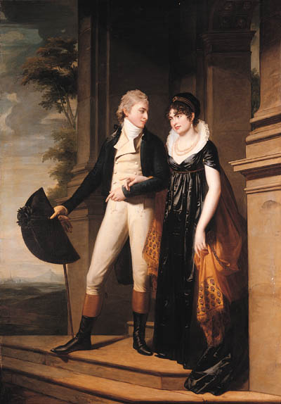 Double portrait of Moritz Christian Johann, Graf von Fries (1777-1825/6) and his wife Maria Theresia Josepha, Prinzessin zu Hohenlohe Waldenburg-Schillingsfürst (1779-1819), in a black dress and a yellow Indian shawl, in a portico